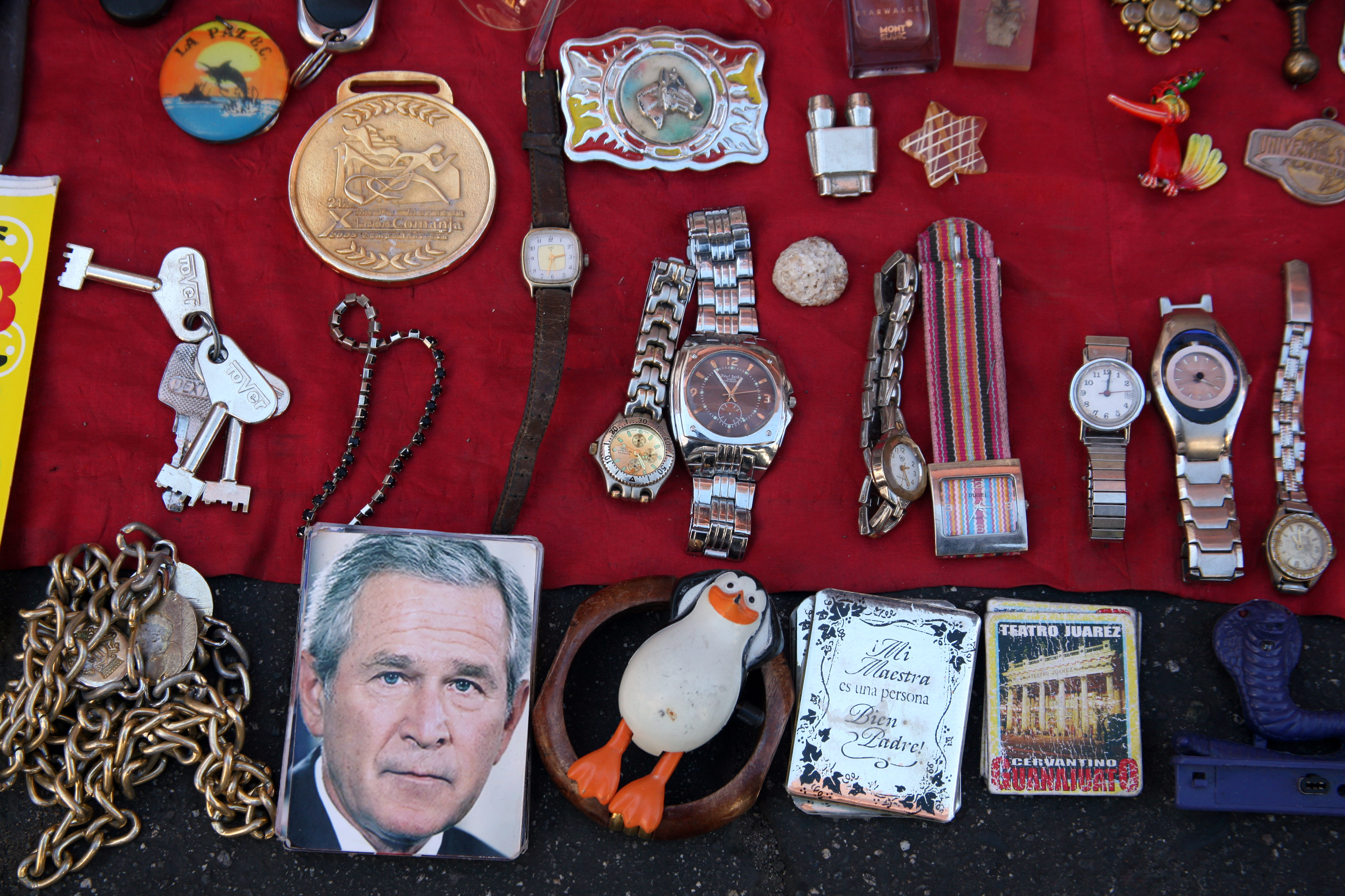 Trinkets at fleamarket in Leon, Guanajauto, Mexico